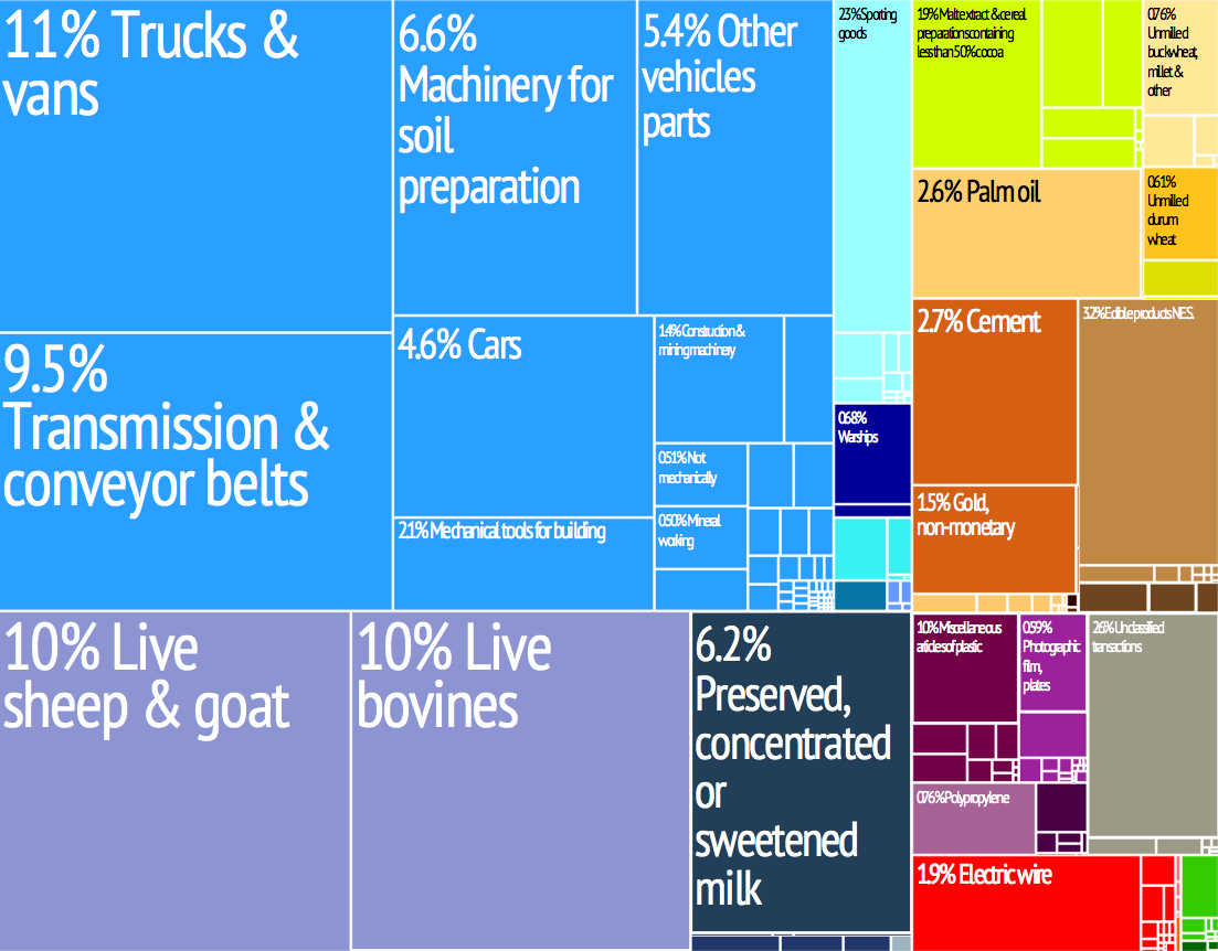 Export Trading Treemap. From MIT/Harvard Atlas of Economic Complexity